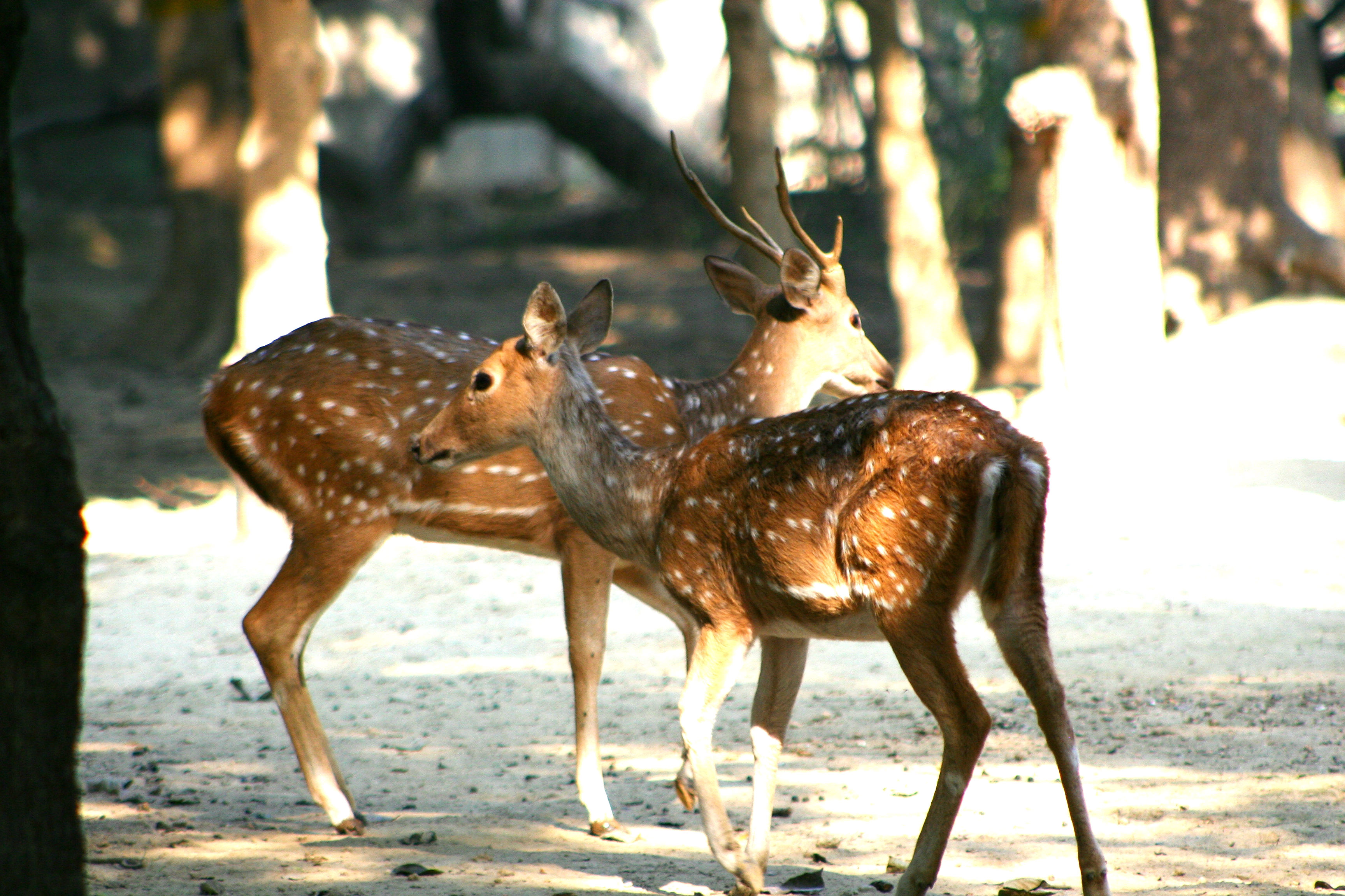 Chital deer at the Kanpur Zoological Garden, Kanpur, India